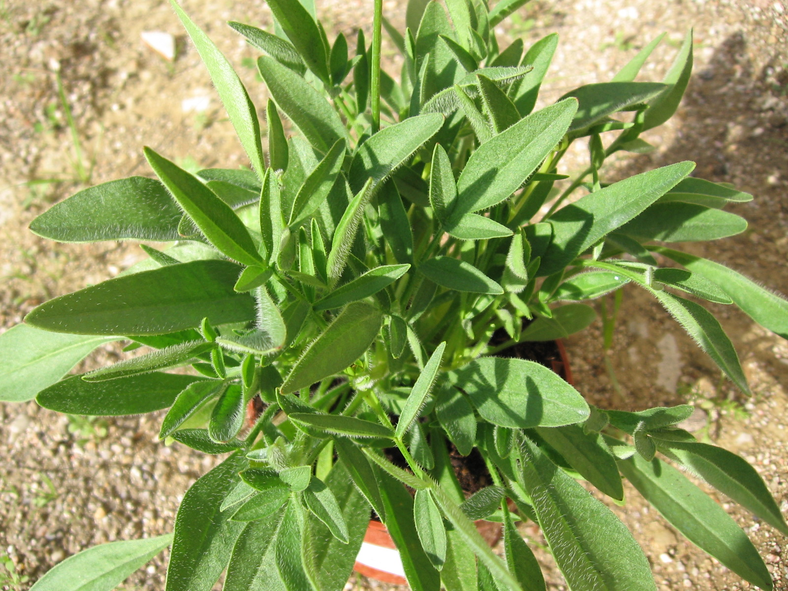 Coreopsis grandiflora